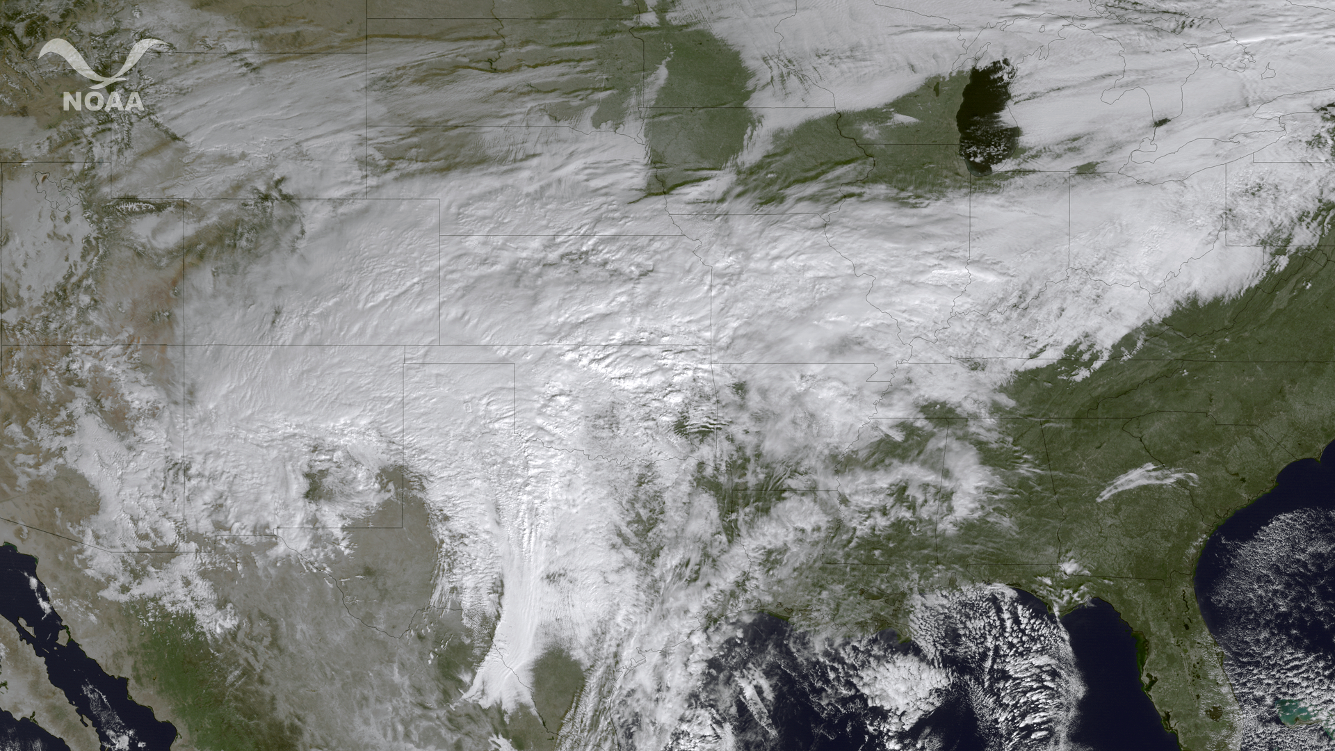 The pictured storm brought significant snowfall and high winds to parts of New Mexico, Colorado, and Kansas in December 2011. This image was taken by GOES East at 1615Z on December 19, 2011.